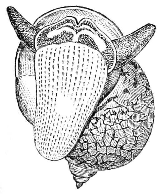 Illustration from Natural History: Mollusca (1854), p. 20 - "Limneus Auricularis" [Radix auricularia]